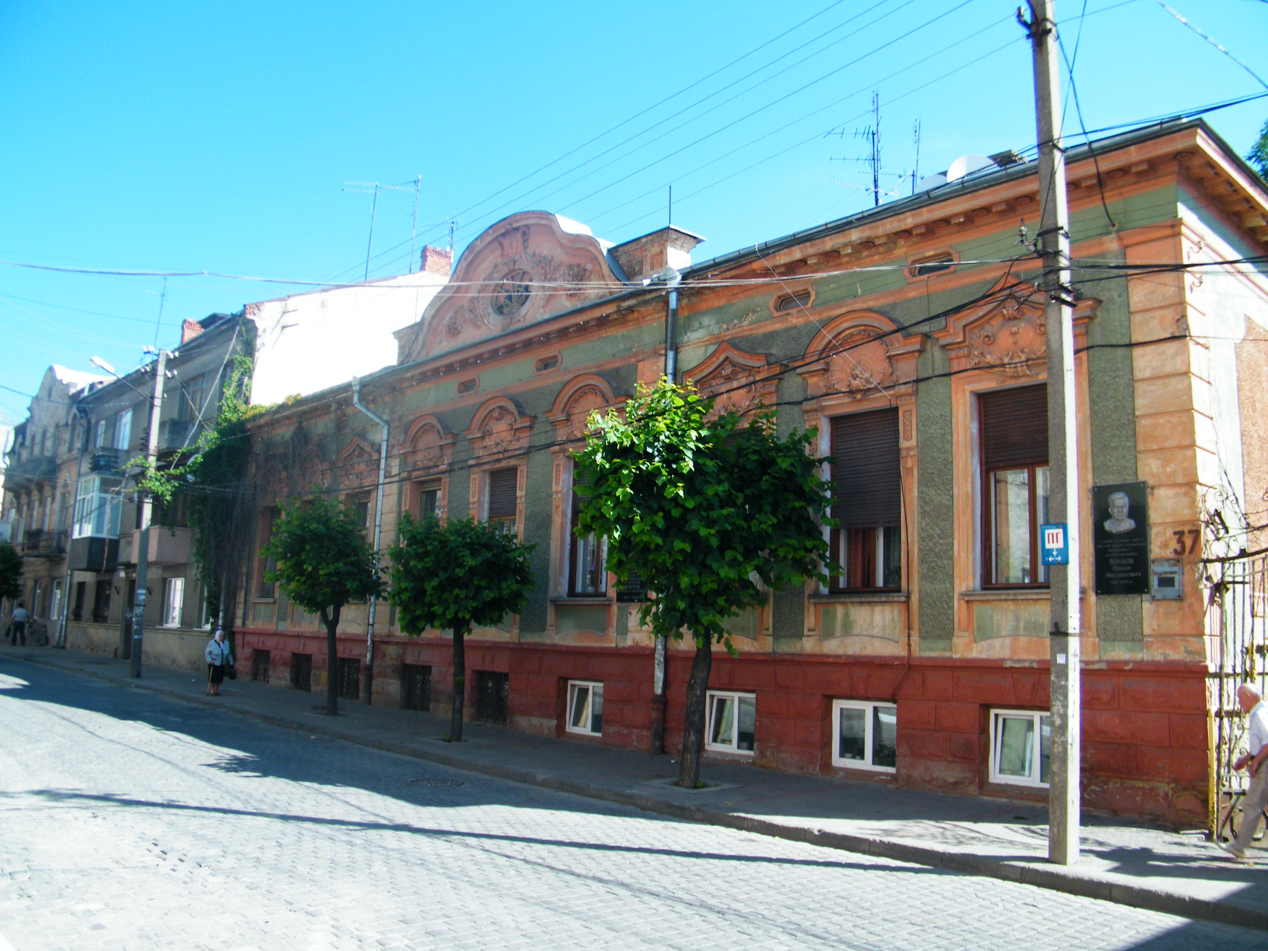 Ukrainska street, 37, Chernivtsi